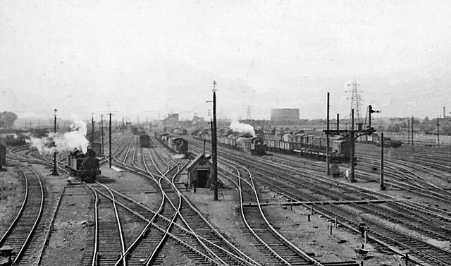 Temple Mills Marshalling Yard, south end. View NW, from Ruckhold Road bridge; ex-Great Eastern major London marshalling yard, beside the Cambridge main line from Stratford via Tottenham. The photograph shows the size and extense of this Yard, which in the 1950s handled 4,500 wagons per day. To be seen are two of the numerous ex-GE 0-6-0Ts which used to handle the shunting and local trips, also over to the right one of the 0-6-0 Diesel shunters that replaced them, while in the centre a newly introduced BR Standard 4MT 2-6-0 heads (tender-first) an Up freight.